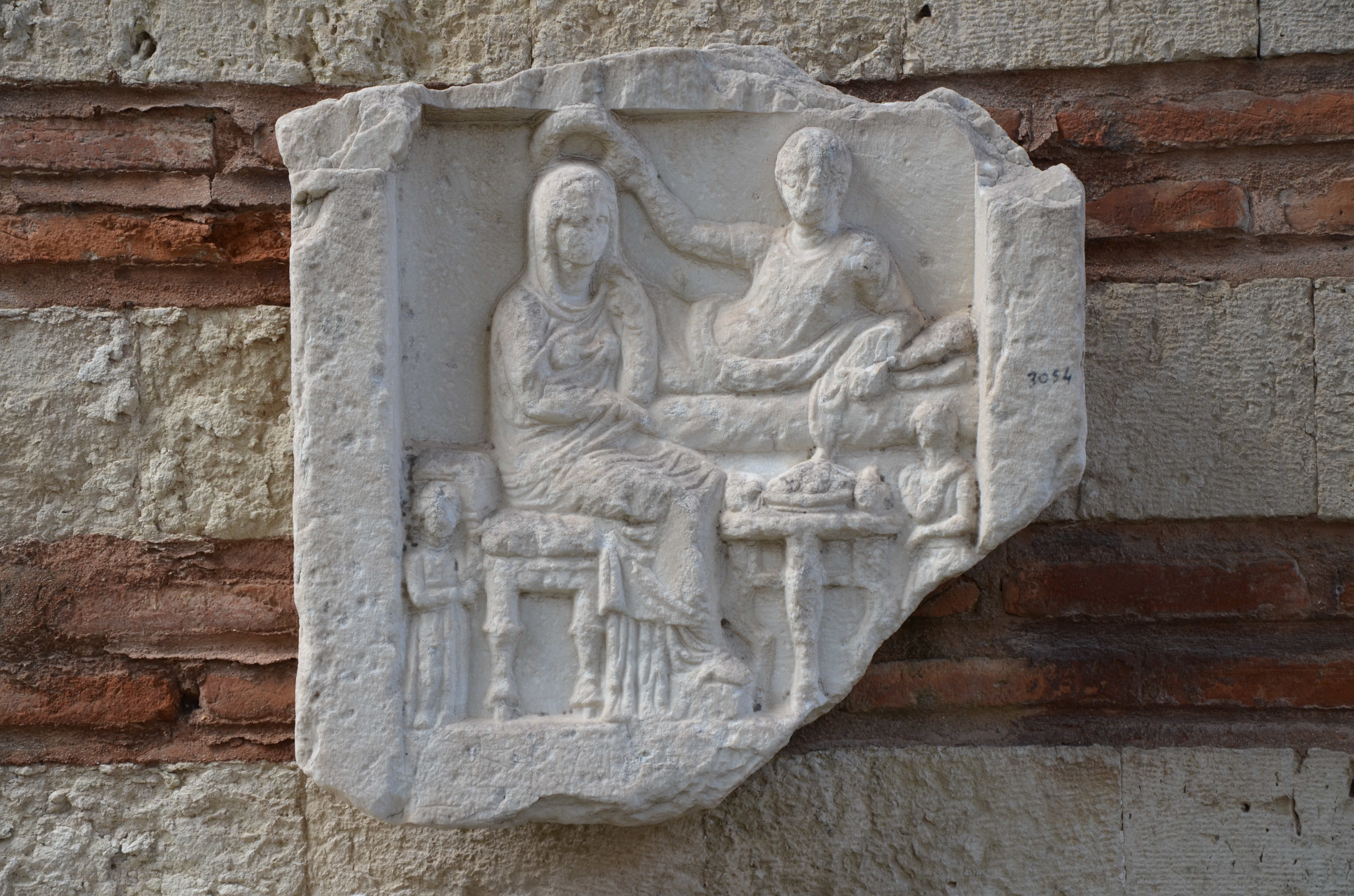 Archaeological Museum of Manisa, Turkey